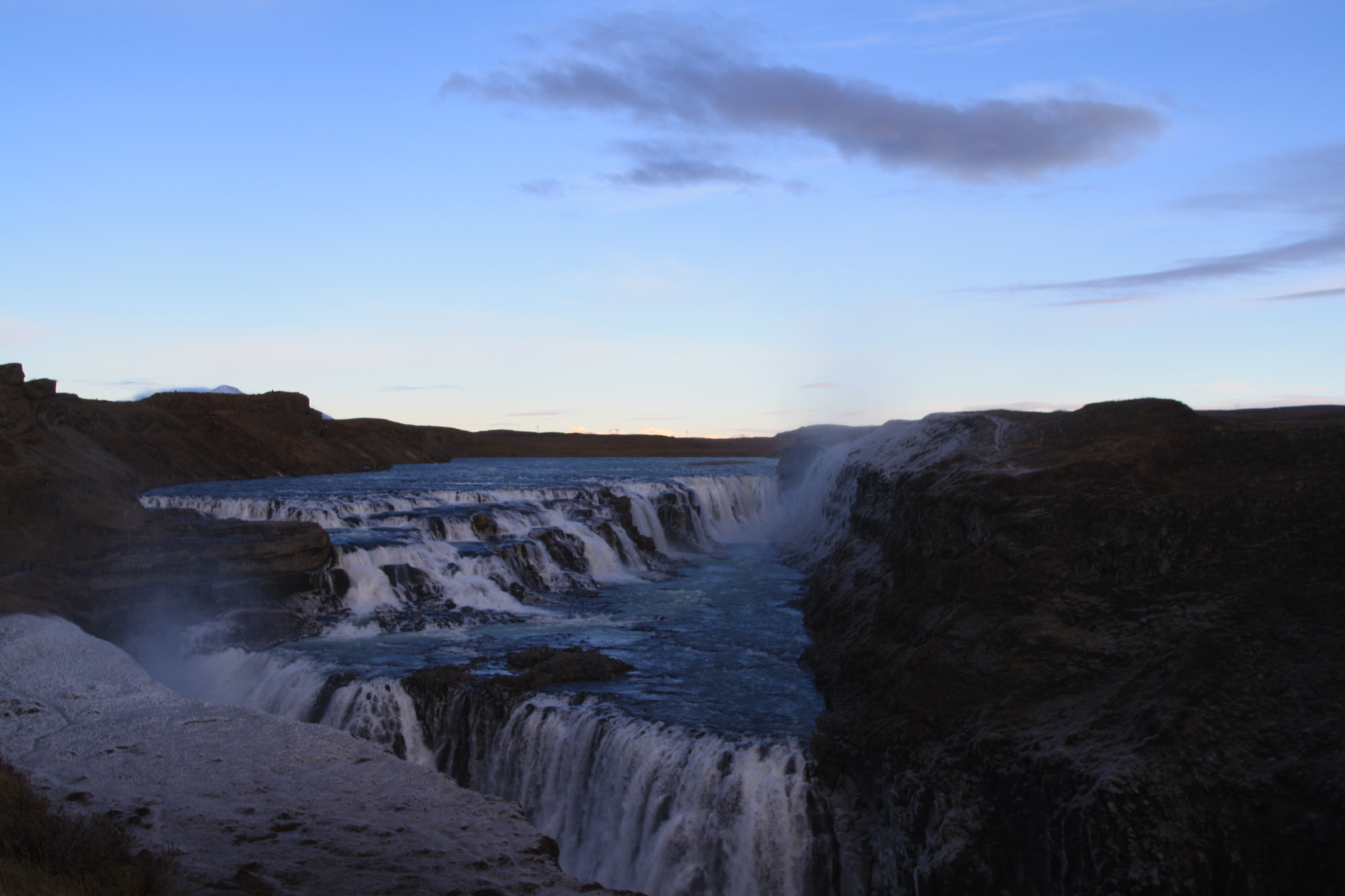 Gulffoss, waterfall, Golden Circle, Iceland